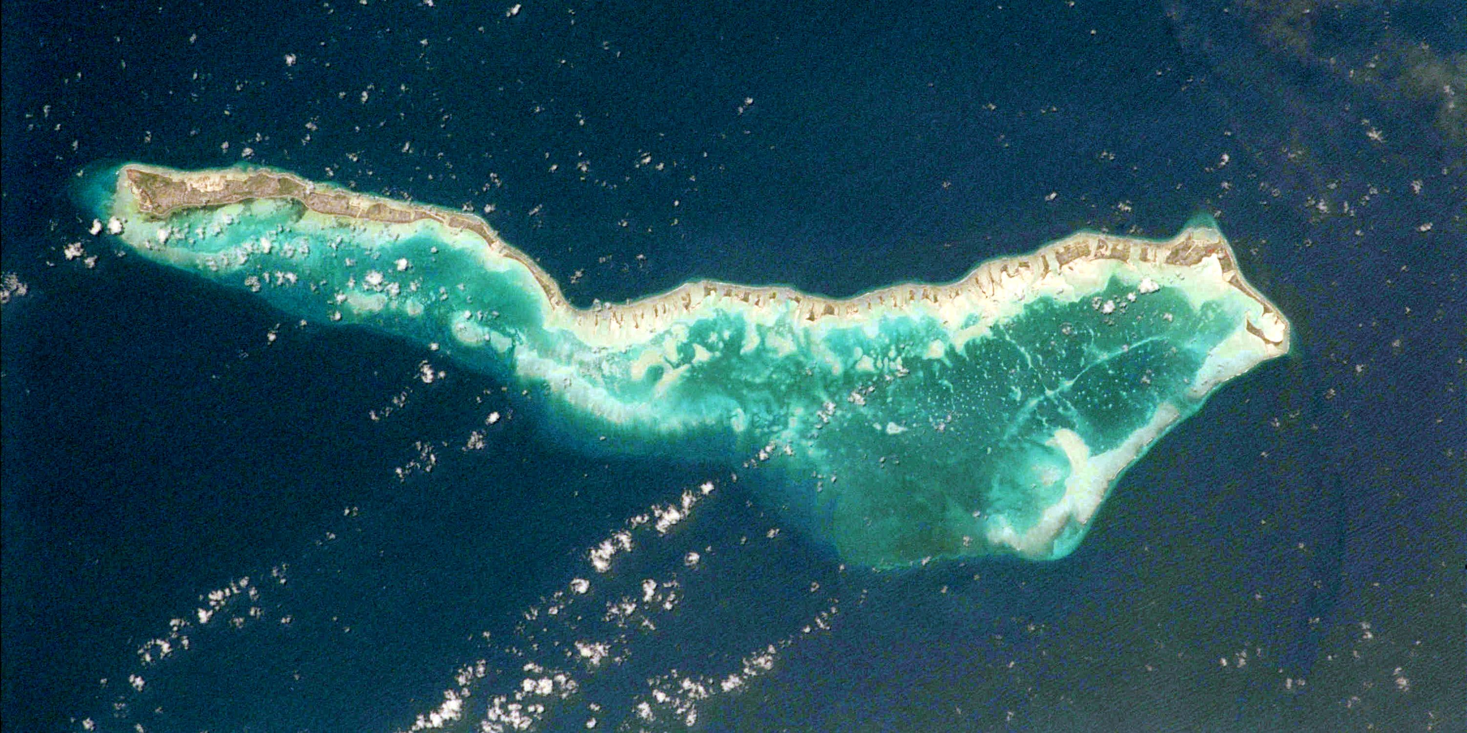 NASA astronaut image of Tabiteuea Atoll, Gilbert Islands, Kiribati